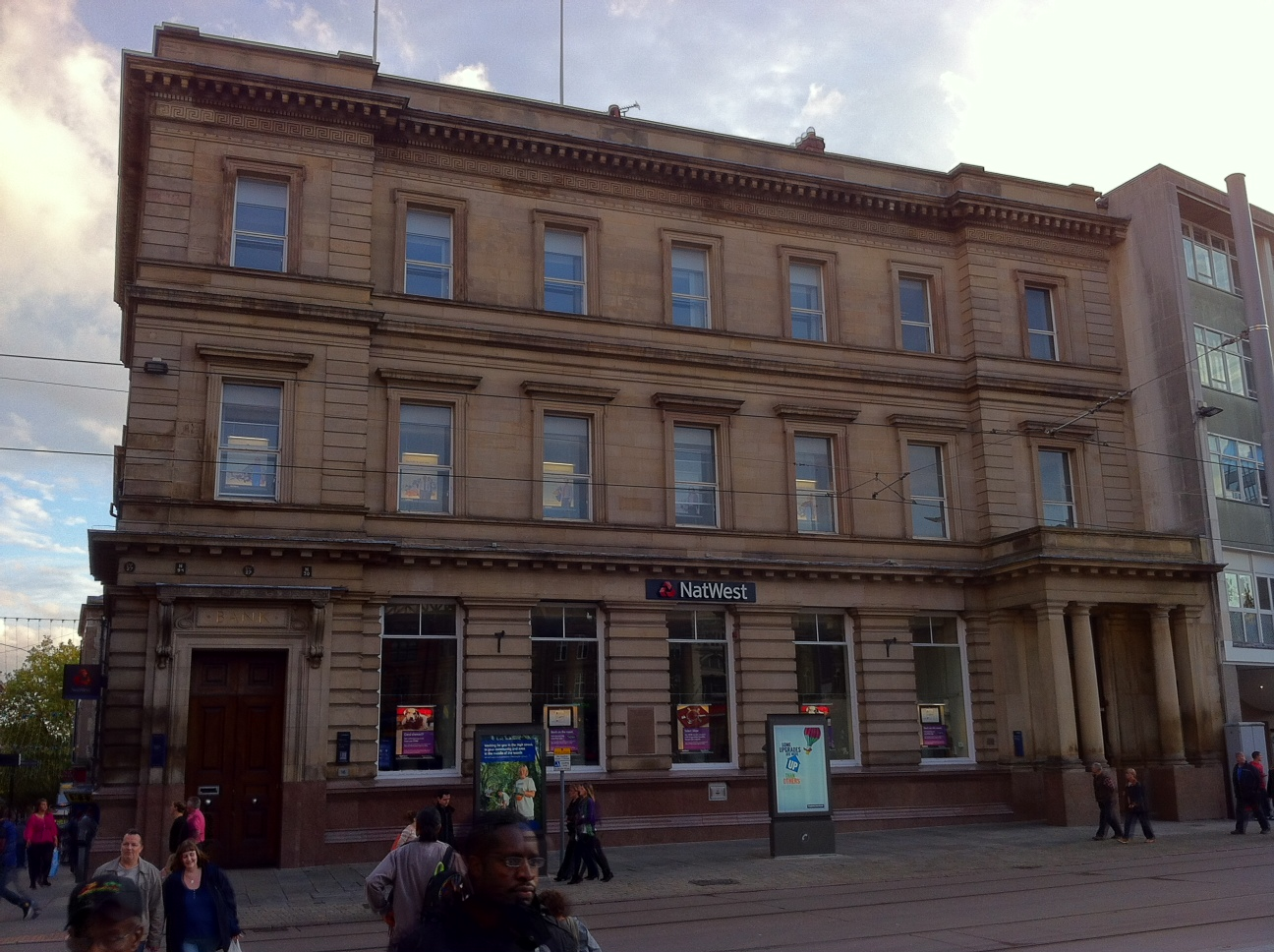 Site of Smith's Bank, 16 South Parade, Old Market Square, Nottingham, now part of the Nat West Bank group. The oldest bank branch in England.